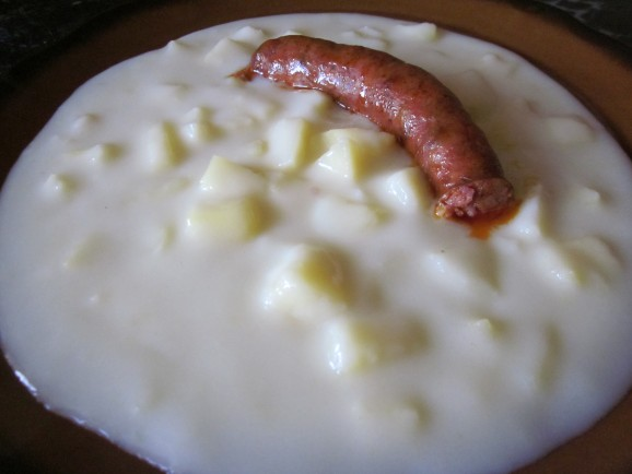 yummy